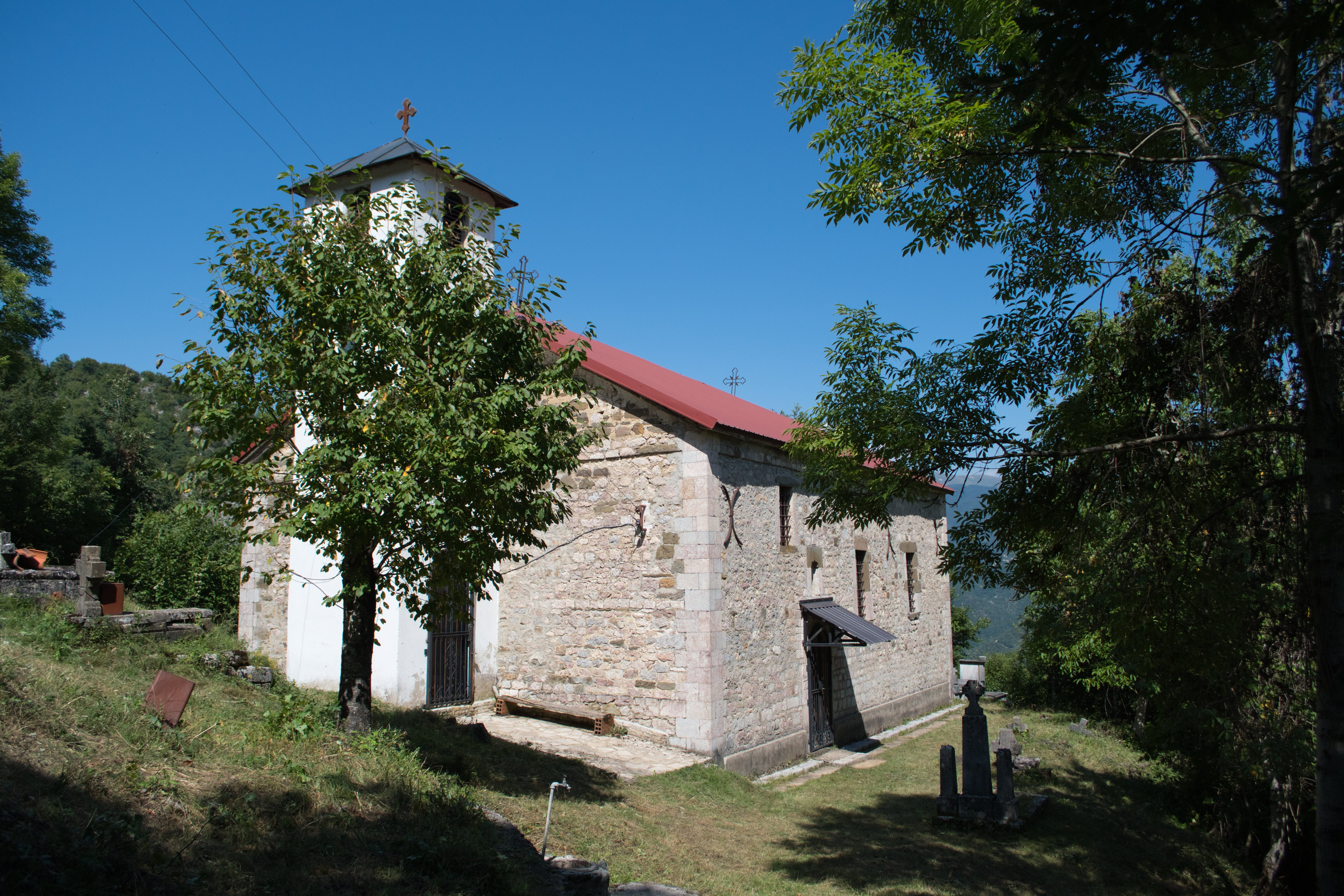 Nativity of the Theotokos Church in the village of Drenok